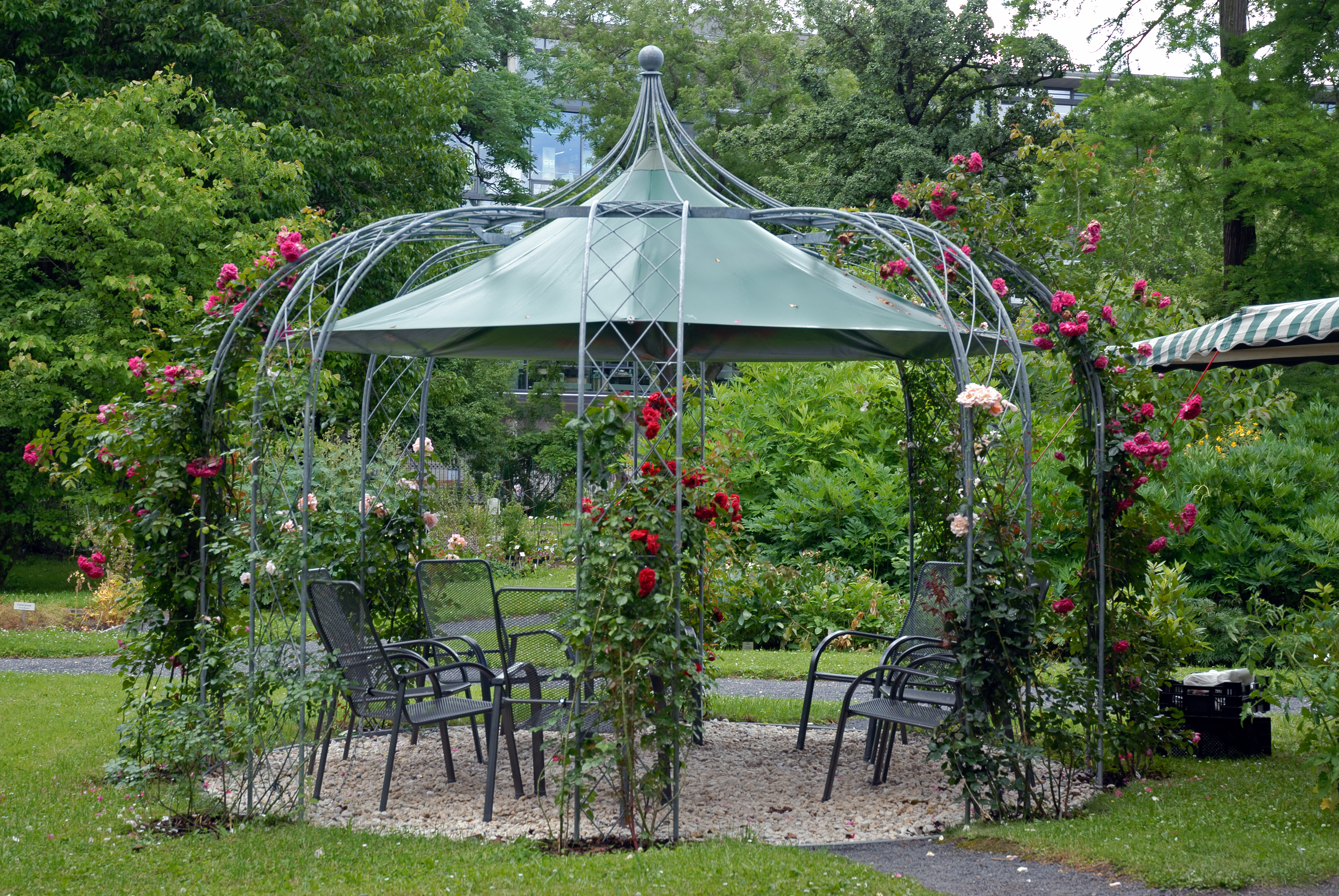 This image shows the botanical garden in Jena.